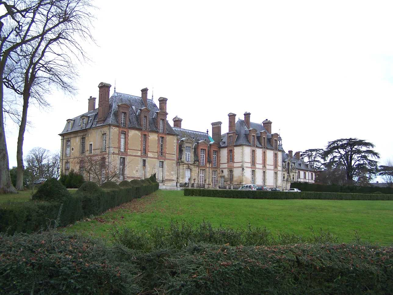 Castle of Thoiry (Yvelines, France)